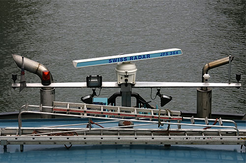 Marine radar antenna on the stern of a small boat. This type of radar usually operates on S-band, 2 to 4 GHz. This type of antenna is called a slot antenna, consisting of a waveguide with many narrow slots cut in it. It radiates a narrow fan-shaped radar beam, perhaps 15° high and 2-3° wide, in a horizontal direction, so that even if the boat is pitching in high seas and the antenna is tilted at an angle, part of the beam will still be pointed toward the horizon, where the targets are. The antenna is rotated about its vertical axis by a motor in the white housing below the antenna at a rate of about a revolution every 2 seconds to scan the entire horizon, searching for other ships.